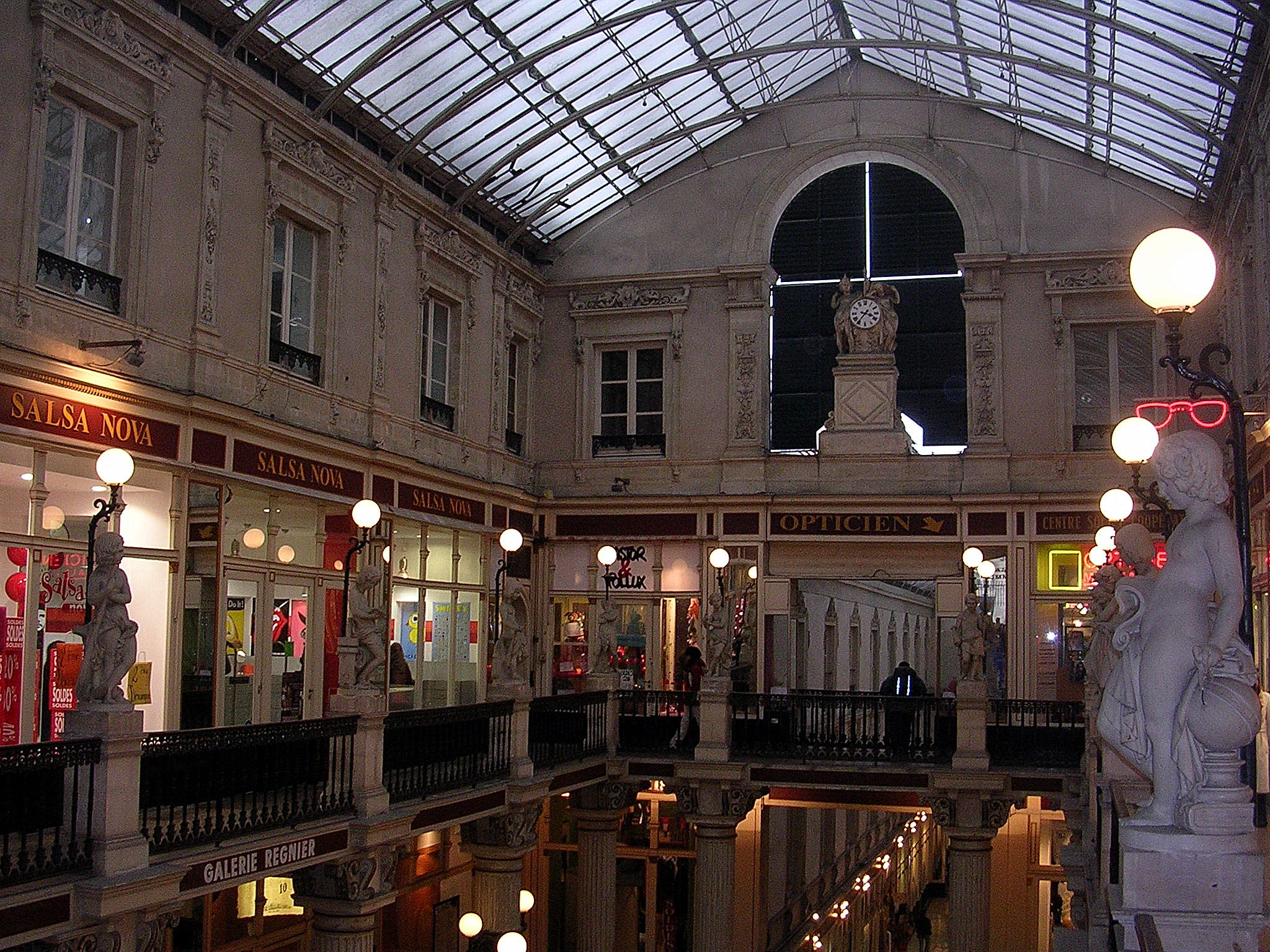 Nantes, Passage Pommeraye. Photo prise par Jibi44